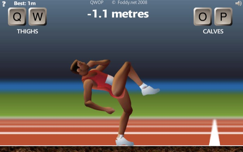 "This is a screenshot of my browser game ‘QWOP'"